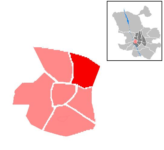 Mapa del barrio de Justicia